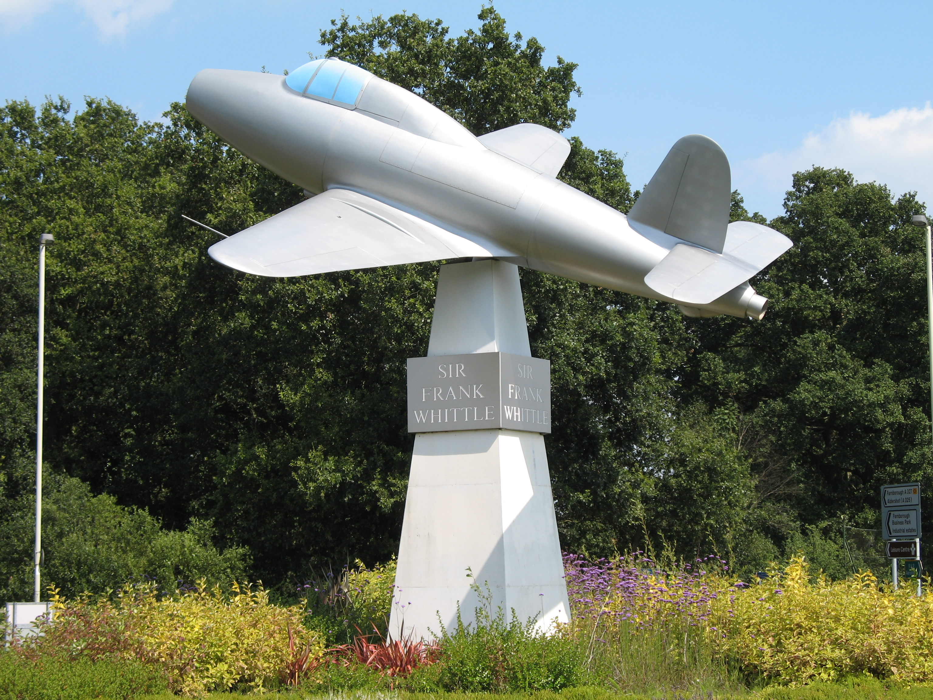 LambOfDog took this photograph on afternoon of 11 August 2007. It is of the work of art erected outside Farnborough airport as a tribute to Sir Frank Whittle. It is in the centre of a roundabout on a public road.